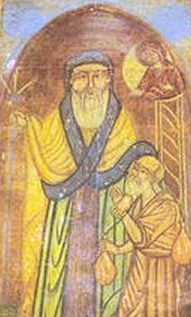 62nd Pope & Patriarch of Alexandria